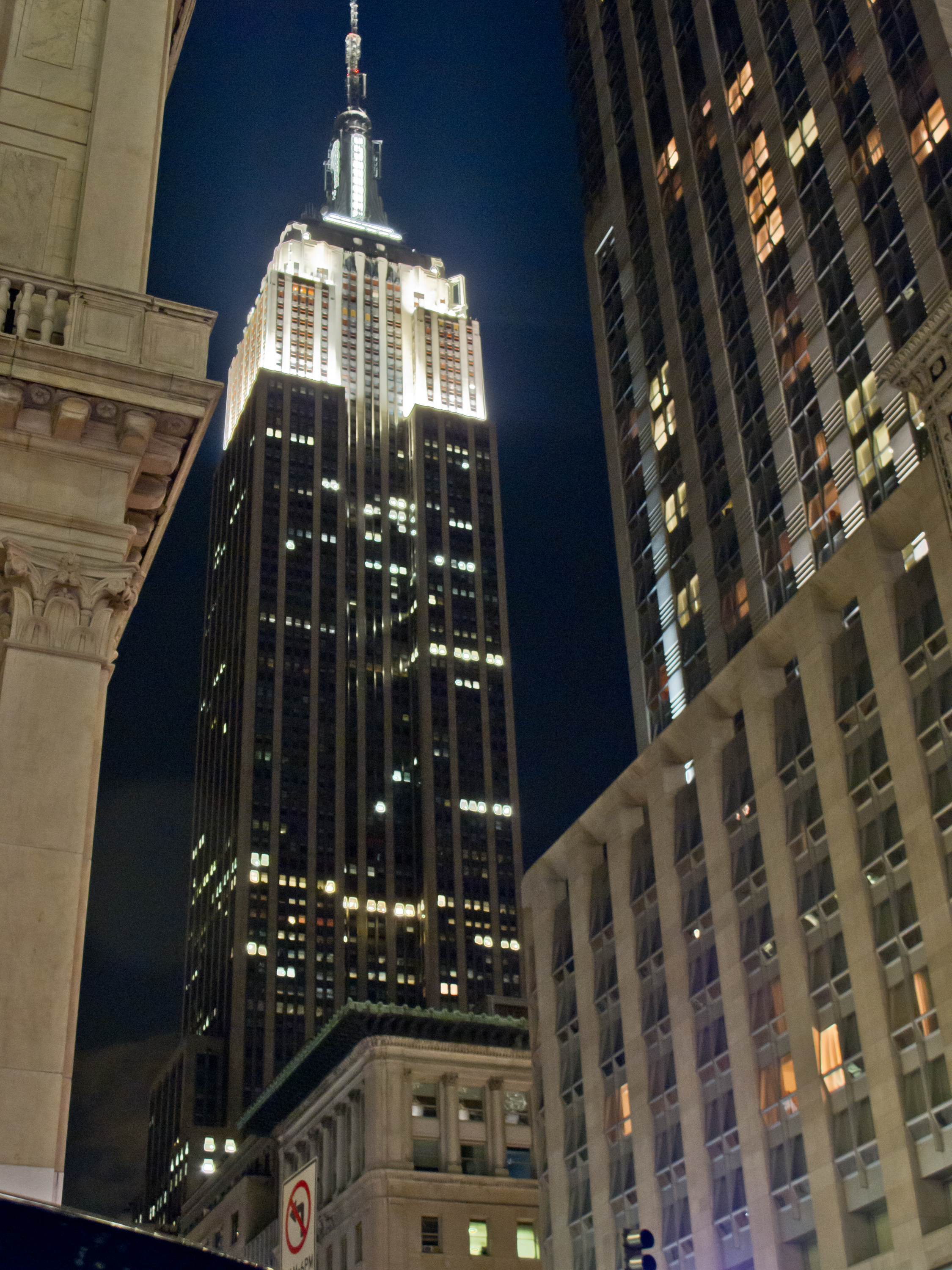 Empire State Building, New York, United States.